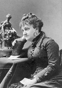 Photograph of Myra Bradwell taken circa 1870 by Mosher photo studio (presumably Chicago photographer C.D. Mosher, who died in 1897), from Chicago Historical Society Prints and Photographs Collection. In any event, the image itself must be over 100 years old because Bradwell died in 1894, Library of Congress, Washington, D.C.; neg. no. LC USZ 62 21202 Note: Published in Elizabeth Cady Stanton, Susan B. Anthony, Matilda Gage. History of Woman Suffrage, Vol. II. Rochester, NY: Susan B. Anthony, 1887, p. 617.